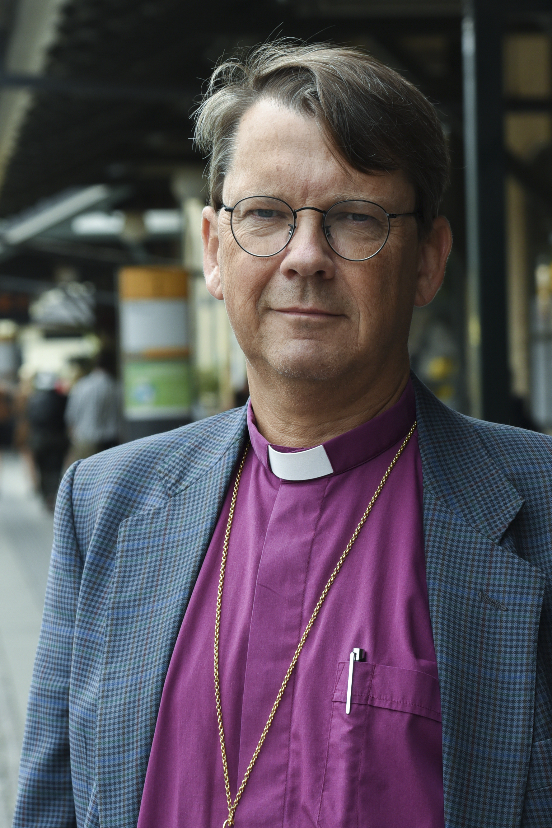 Bishop Johan Tyrberg, portrait. Photo Camilla Lindskog.